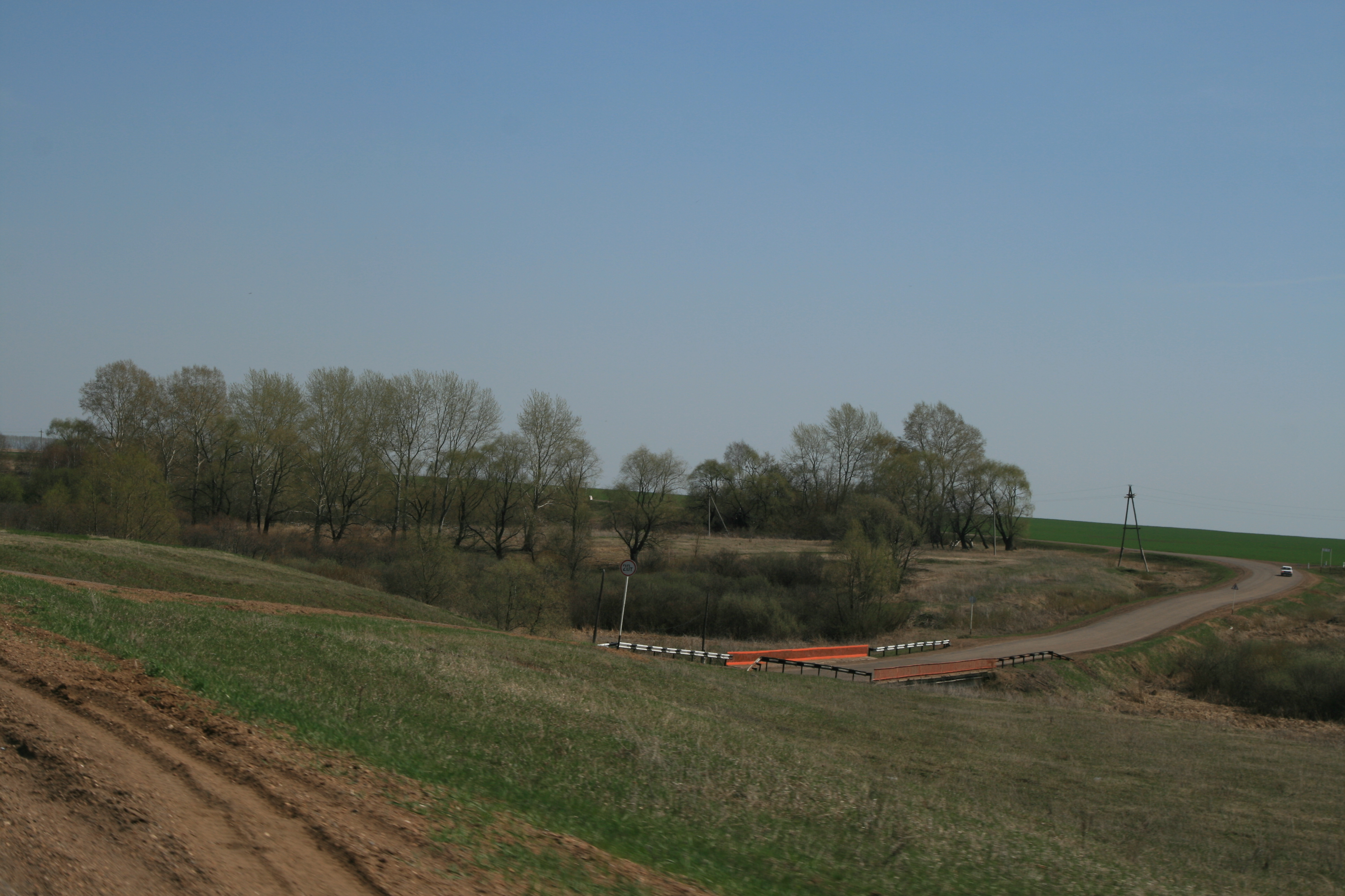 Kudushla river near village Kudushlibashevo in Kushnarenkovo rayon, Bashkortostan. The bridge on the route Kushnarenkovo ​​- Bakaly.